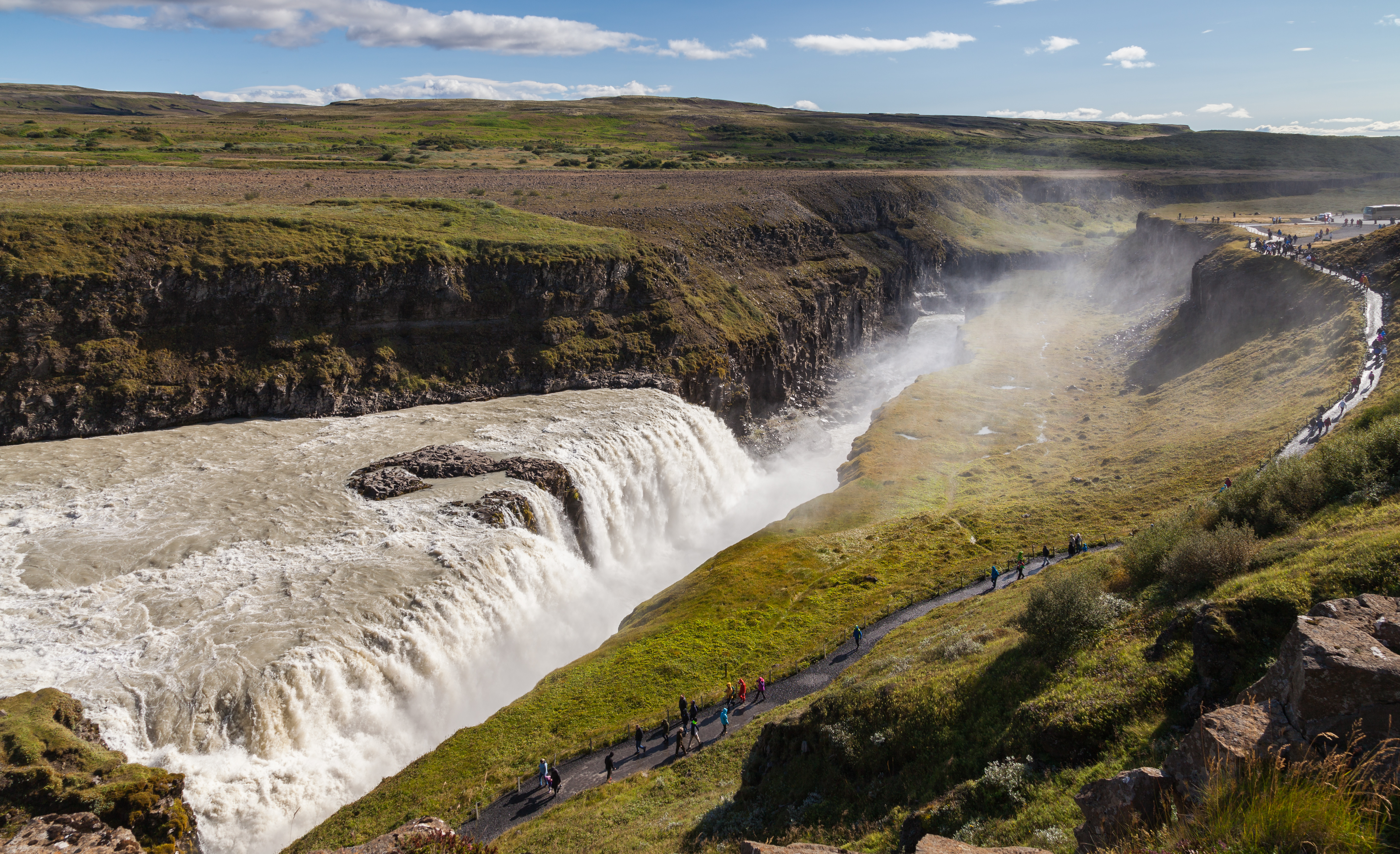 Gullfoss, Suðurland, Iceland